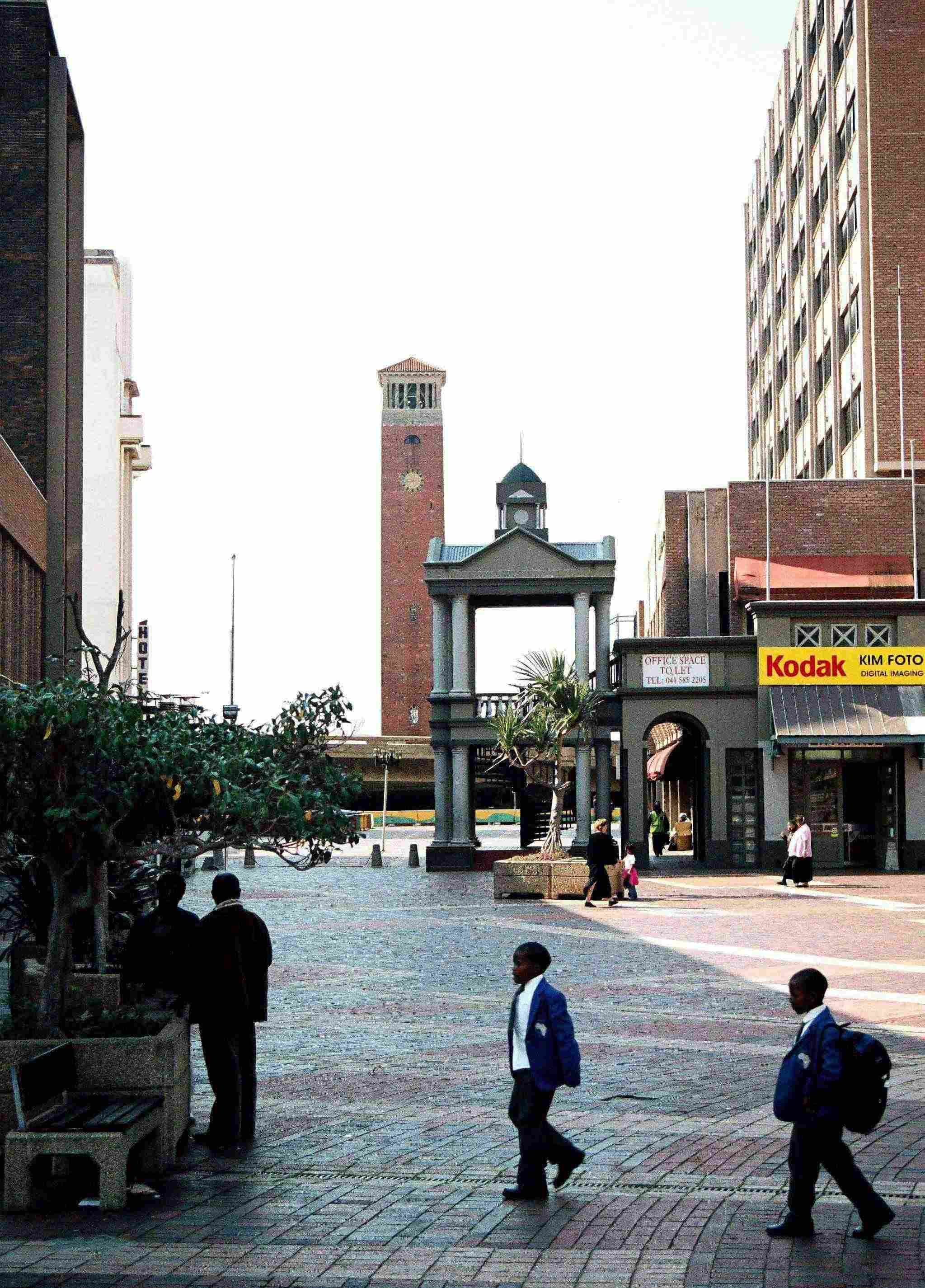 The "campanile" (clock tower) in Port Elizabeth, South Africa